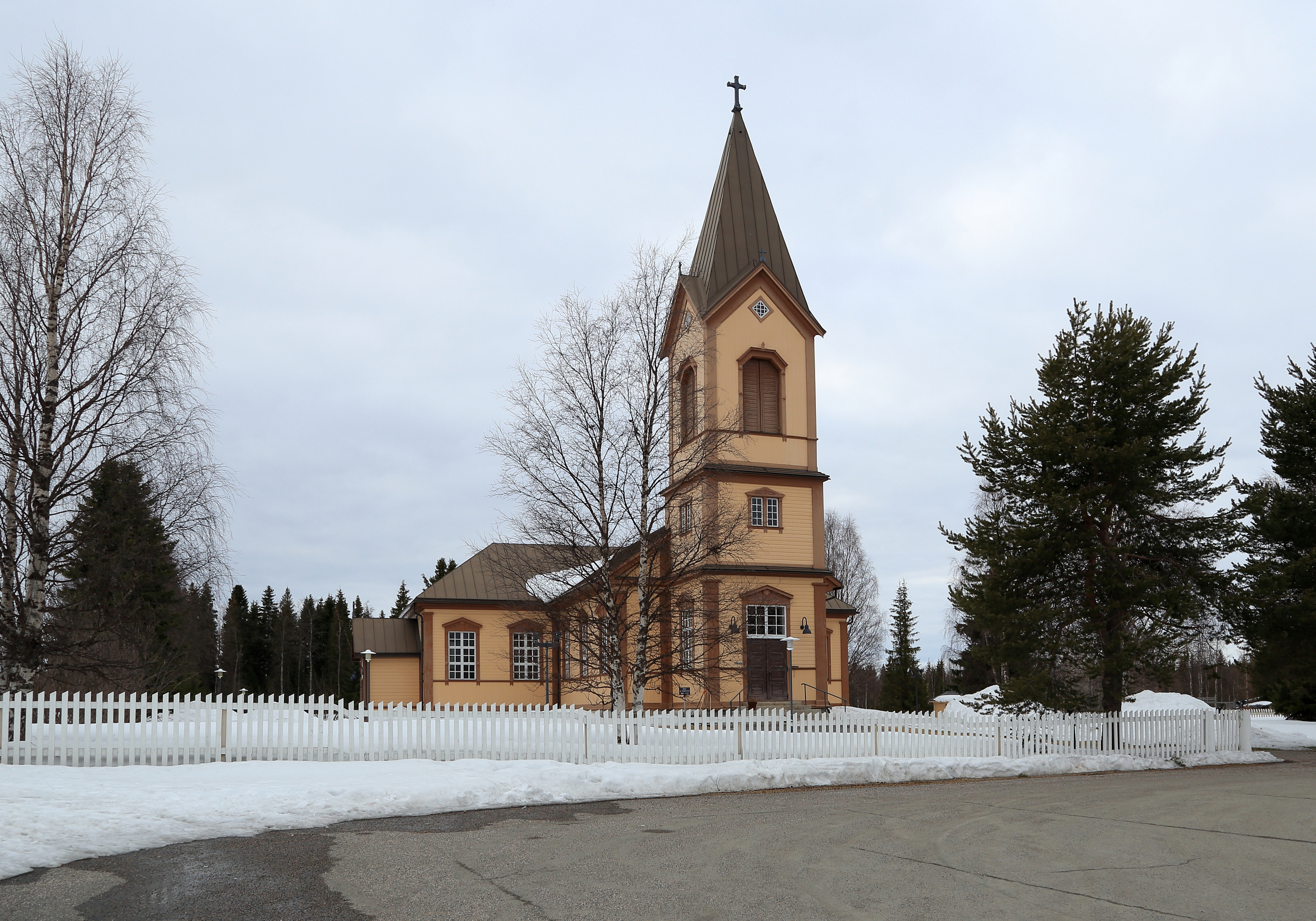 The Kittilä Church in Finland.